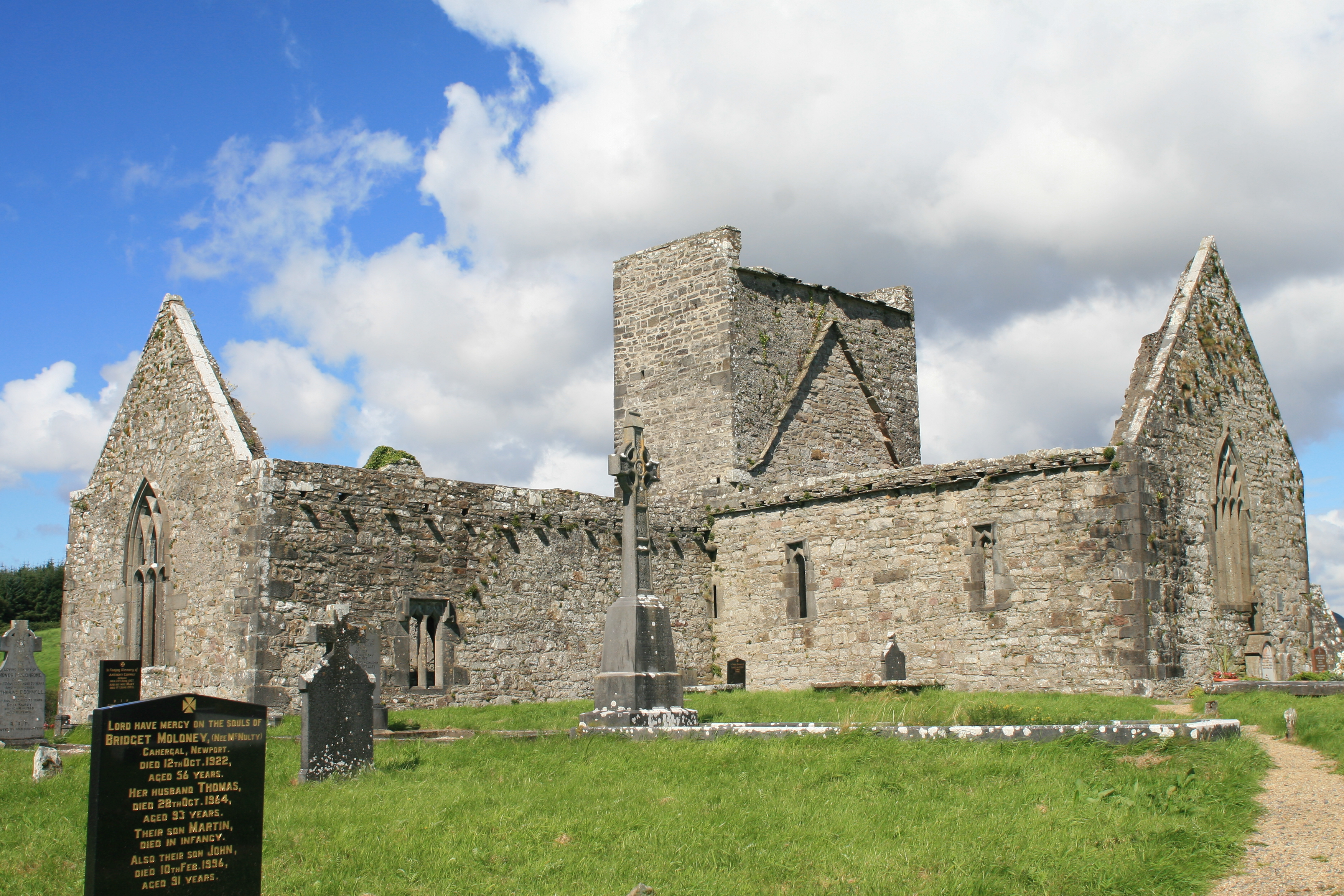 Burrishoole, County Mayo, Ireland Burrishoole Priory as seen from southeast.